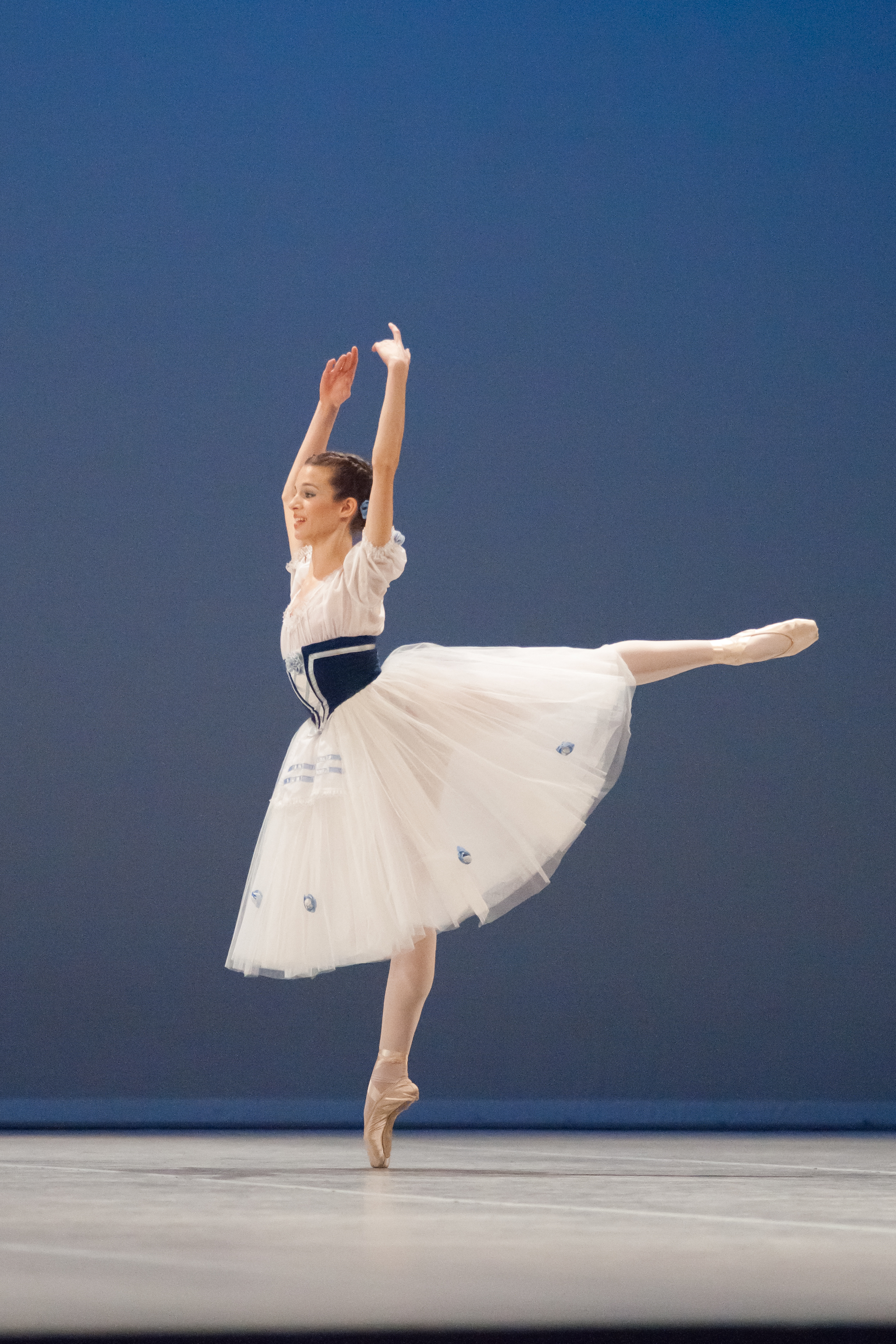 The making of this document was supported by Wikimedia CH. (Submit your project!) For all the files concerned, please see the category Supported by Wikimedia CH.